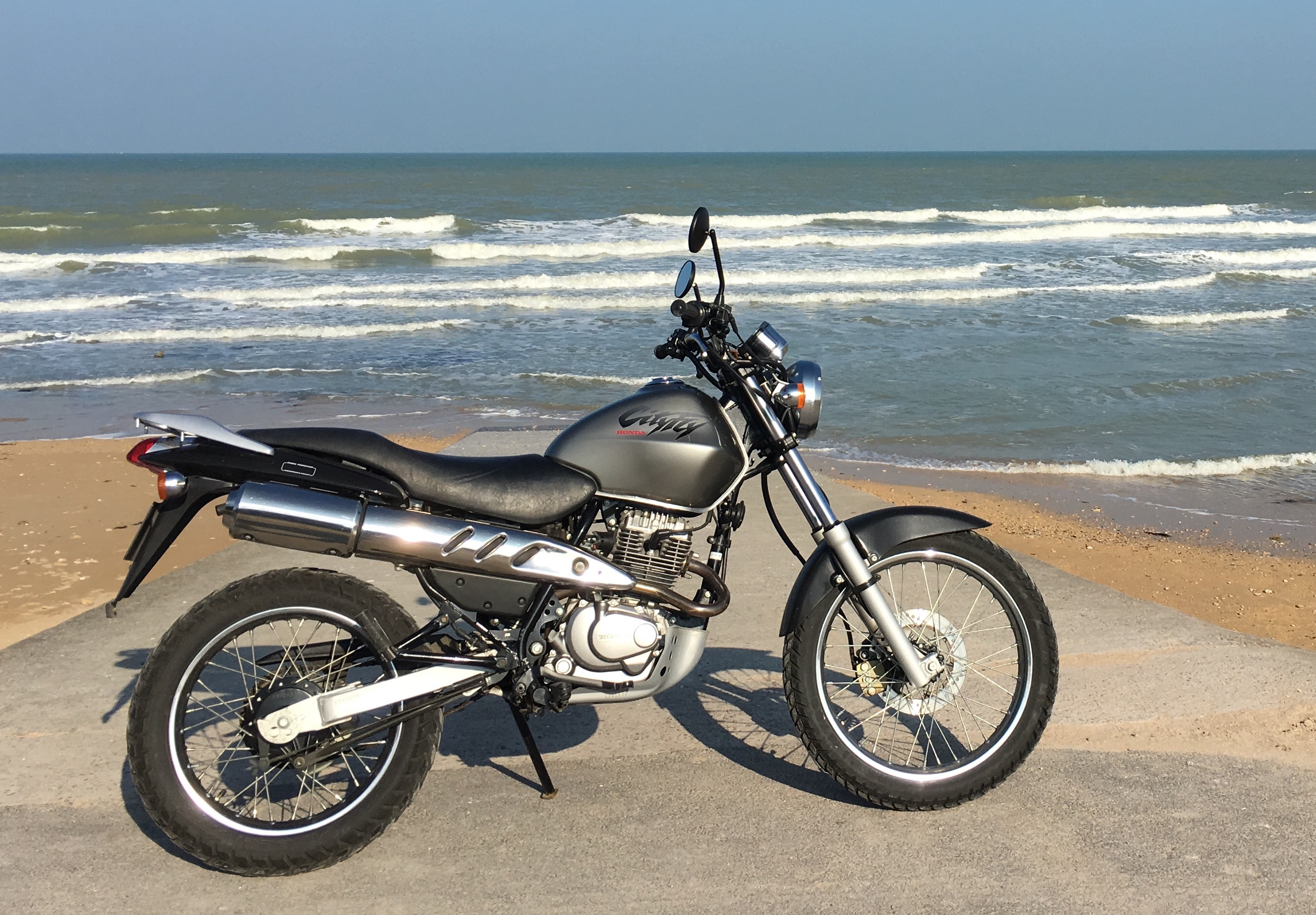 Honda 125 CLR CityFly motorcycle right side